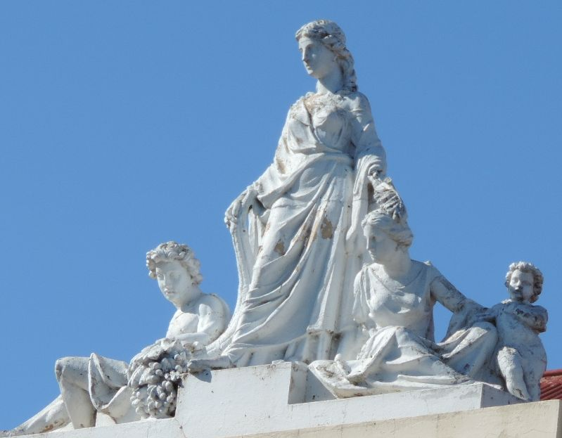 Closeup